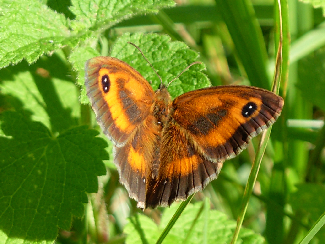 Pyronia tithonus, Amaryllis.